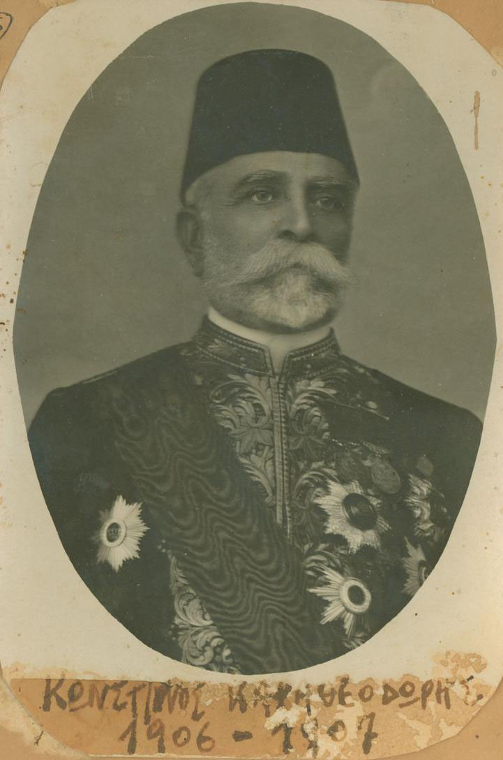 Portrait photo of Konstantinos Karatheodoris, Prince of Samos (1906-1907)